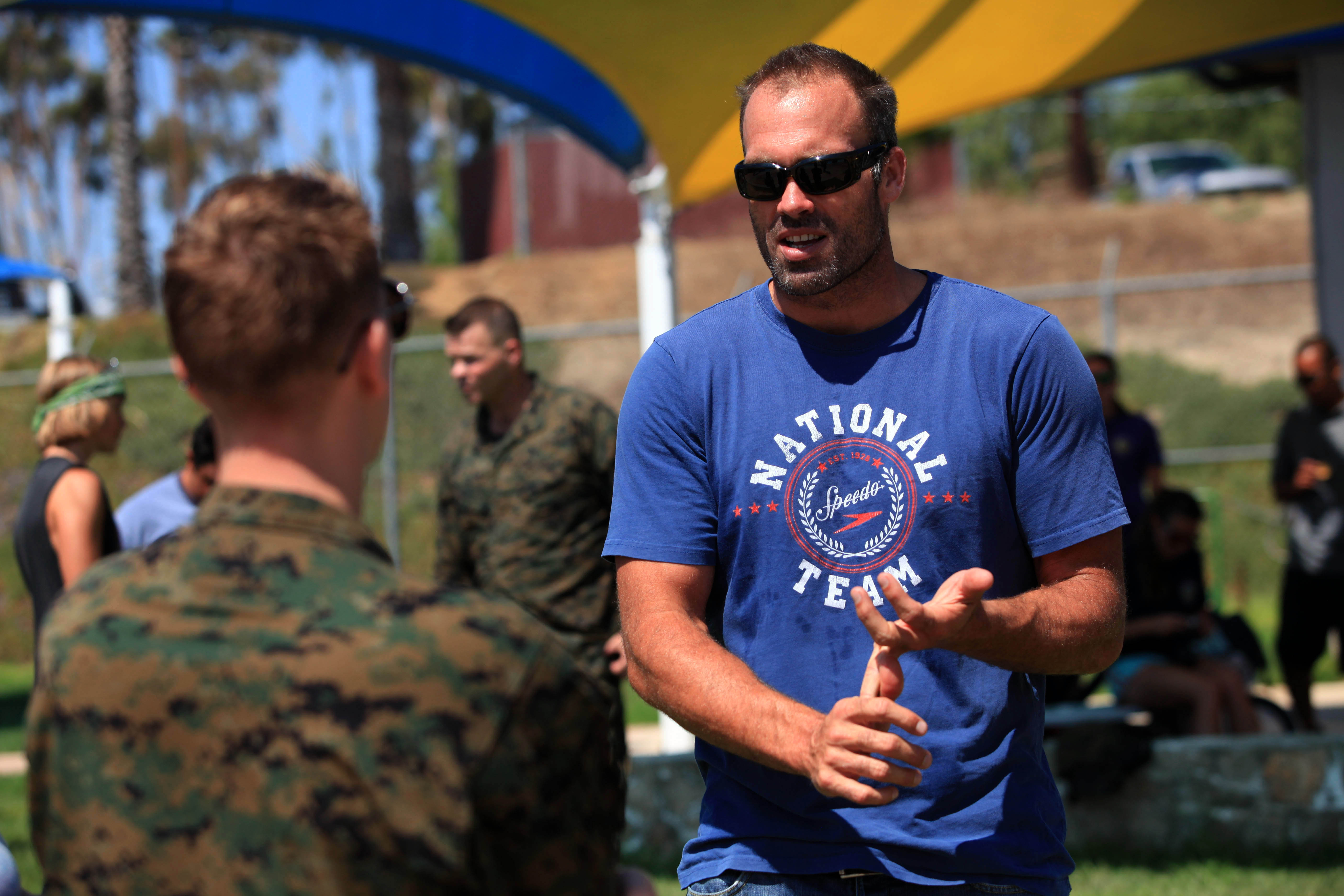 Ryan Bailey, a former USA Men’s Water Polo Team Olympian interacts with a Marine during his surprise visit during a combat water polo tournament at Camp Pendleton’s 13 Area Pool, Sept. 12. Marine Corps Community Services’ Pendleton Cup Series provided Marines and sailors with an opportunity to build unit cohesion and camaraderie while competing for monetary prizes that will be awarded to their respective units.